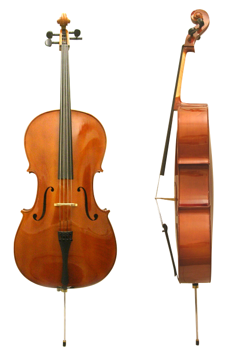 removed background as graphics lab contribution